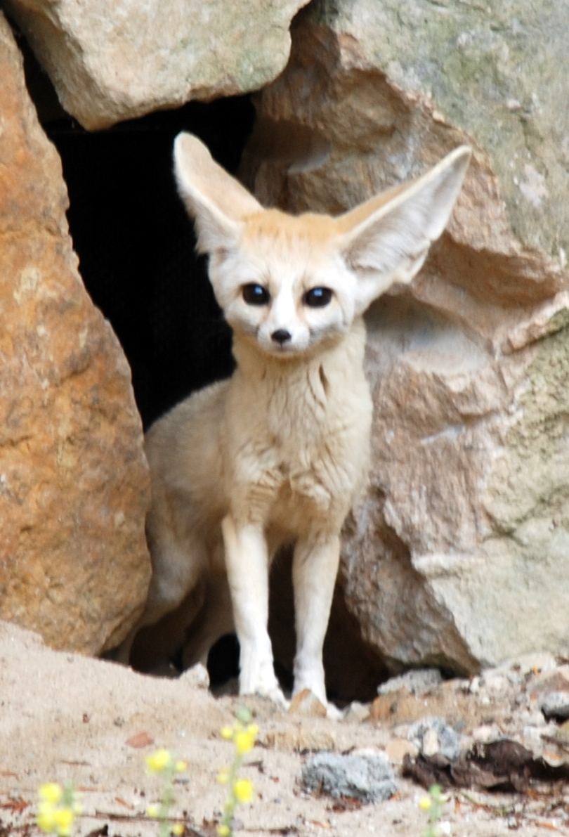 Fennec Fox (Vulpes zerda), Prague ZOO, Czech Republic